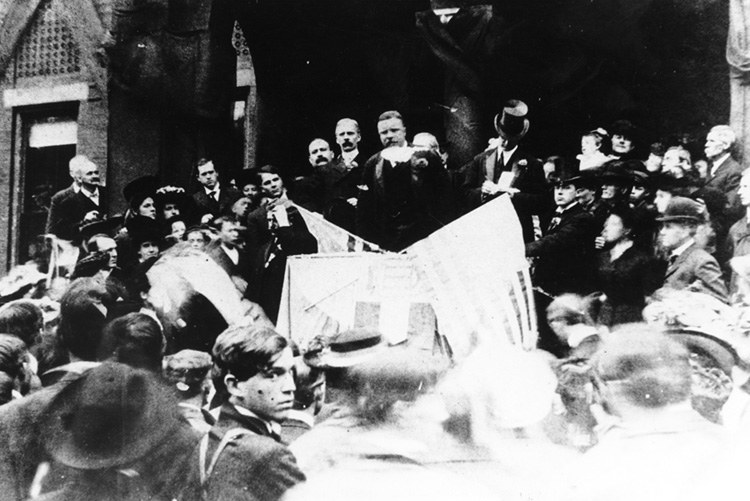 U.S. President Theodore Roosevelt gives a speech in front of Tech Tower on October 20, en:1905.